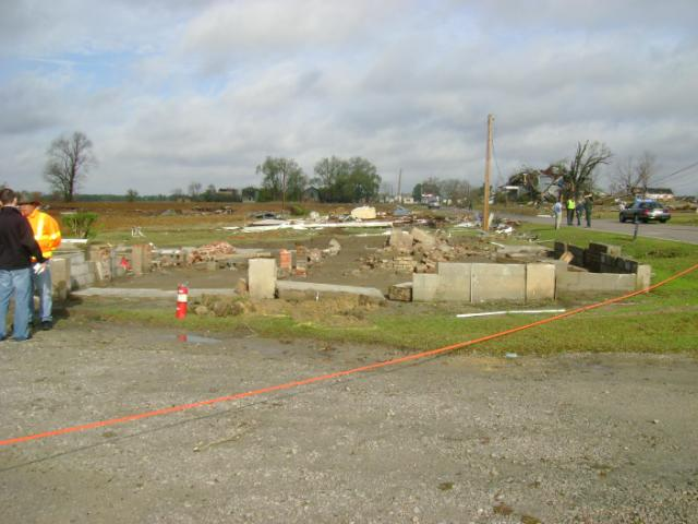 A home destroyed by an EF3 tornado